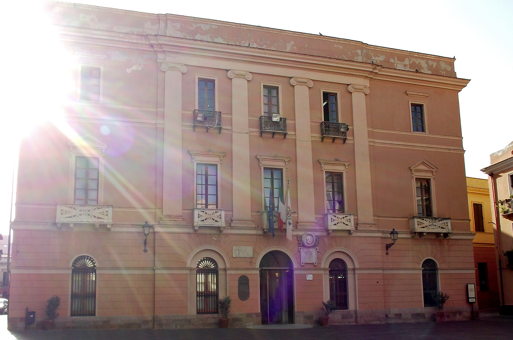 The Iglesias old city hall, in Sardinia, Italy